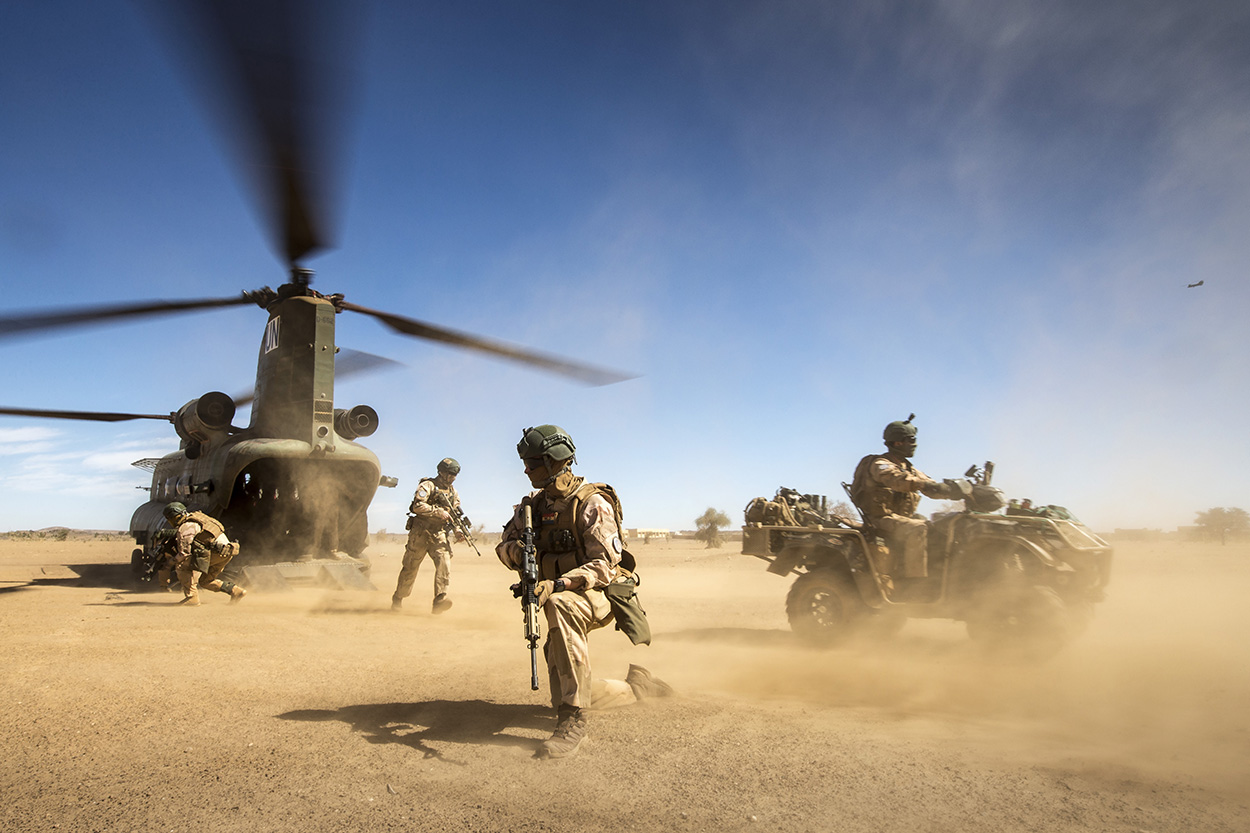 Mali, missie MINUSMA. Vanuit Gao (Kamp Castor) vertrekt LRRPTG (TGDF) per chinook naar het oord Tasik, ten noorden van Gao, op 45 km van Kidal. Naar aanleiding van eerdere onderlinge onrust in dit gebied, wordt hier informatie vergaard door de luchtmobiele militairen. Foto: Aankomst bij het oord Tasik. De militairen verlaten de Chinook.